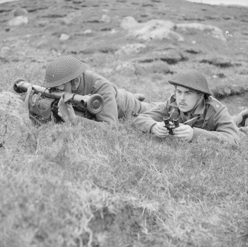 The British Army 1939-45 A mortar officer and rangefinder operator of the Lovat Scouts, during an exercise in the Faroe Islands, 20 June 1941.